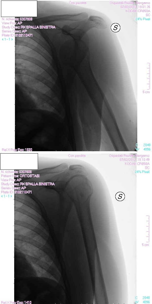 Radiographs of dislocated shoulder before and after reduction; inverted colours.